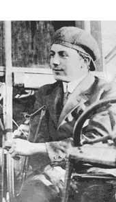 1914 photo of aviation pioneer Tony Jannus